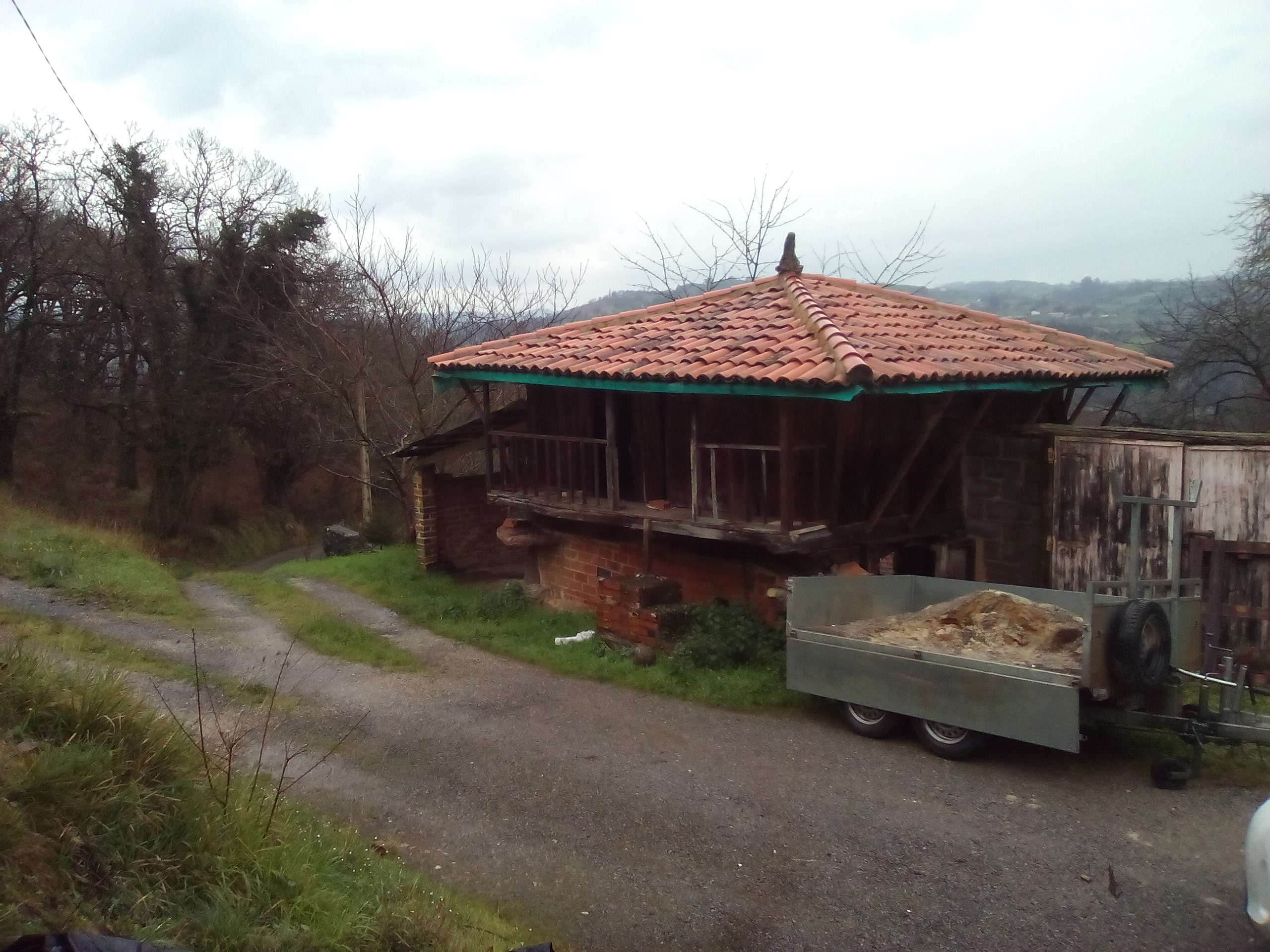 Hórreo con tejado rehabilitado en Santa María de Grado